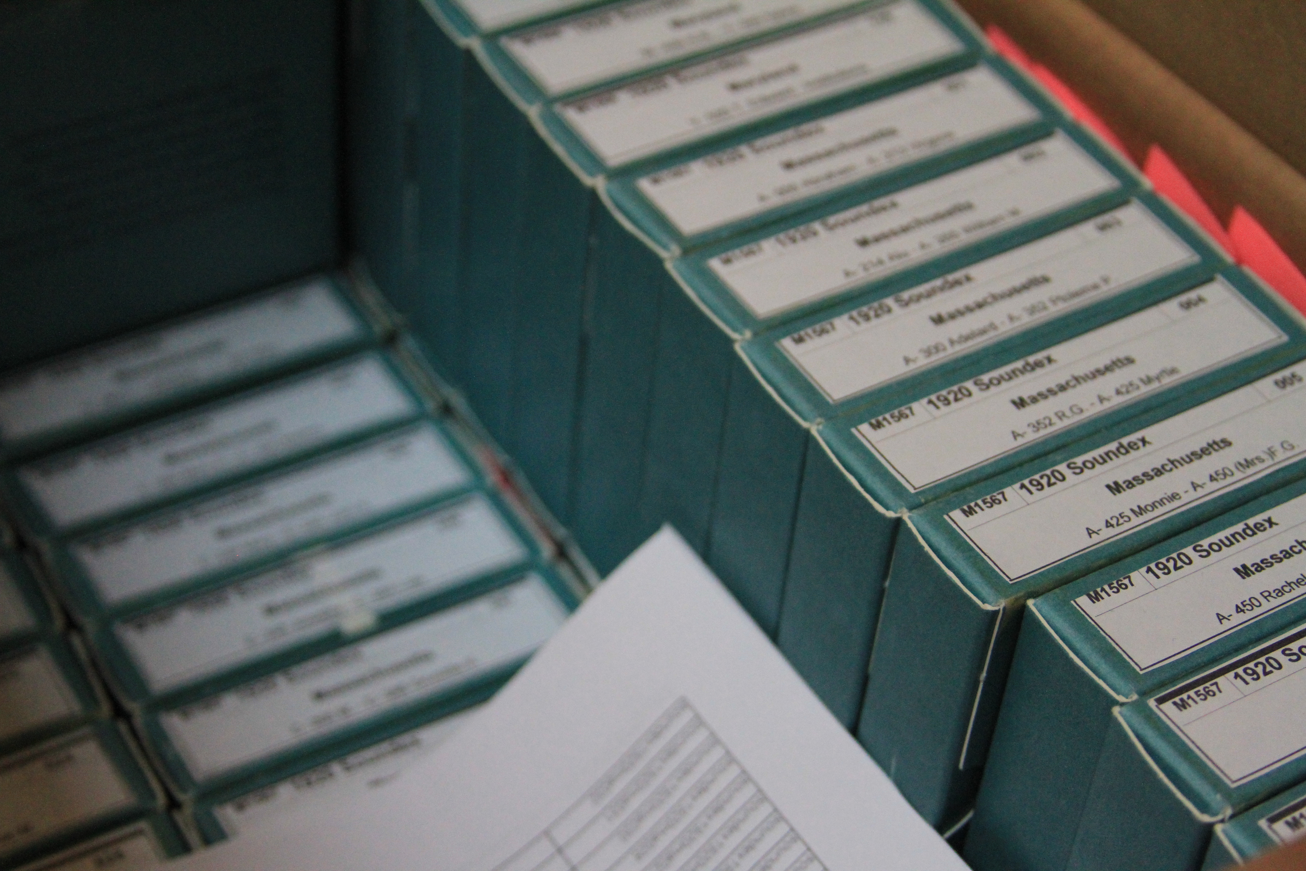 Among the items that can be digitized at this scanning center is Microfilm, and this was a collection of reels awaiting digitization.